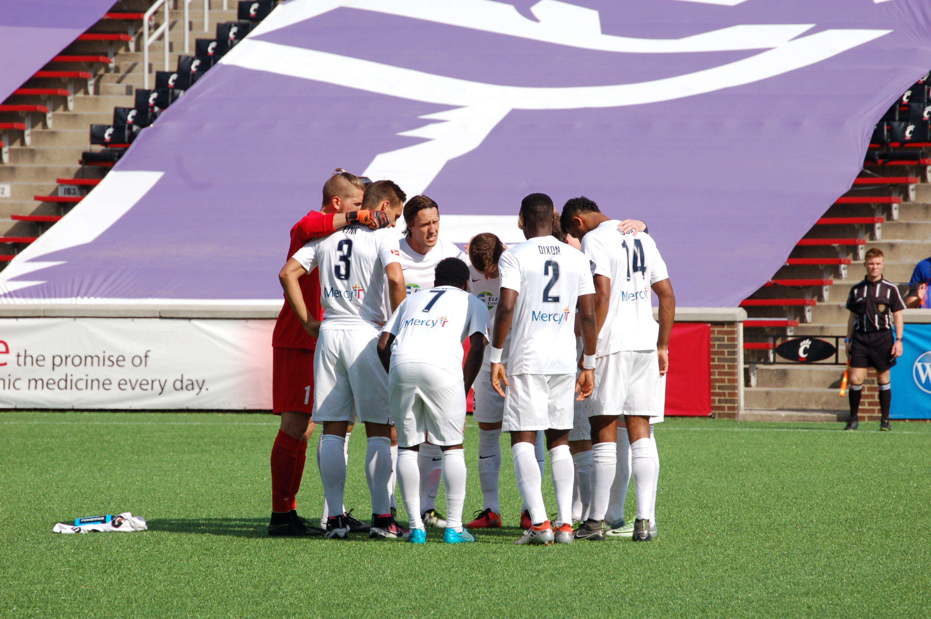 St. Louis huddle Taken during a USL regular season match between FC Cincinnati and Saint Louis FC at Nippert Stadium in Cincinnati, USA on September 5, 2016.